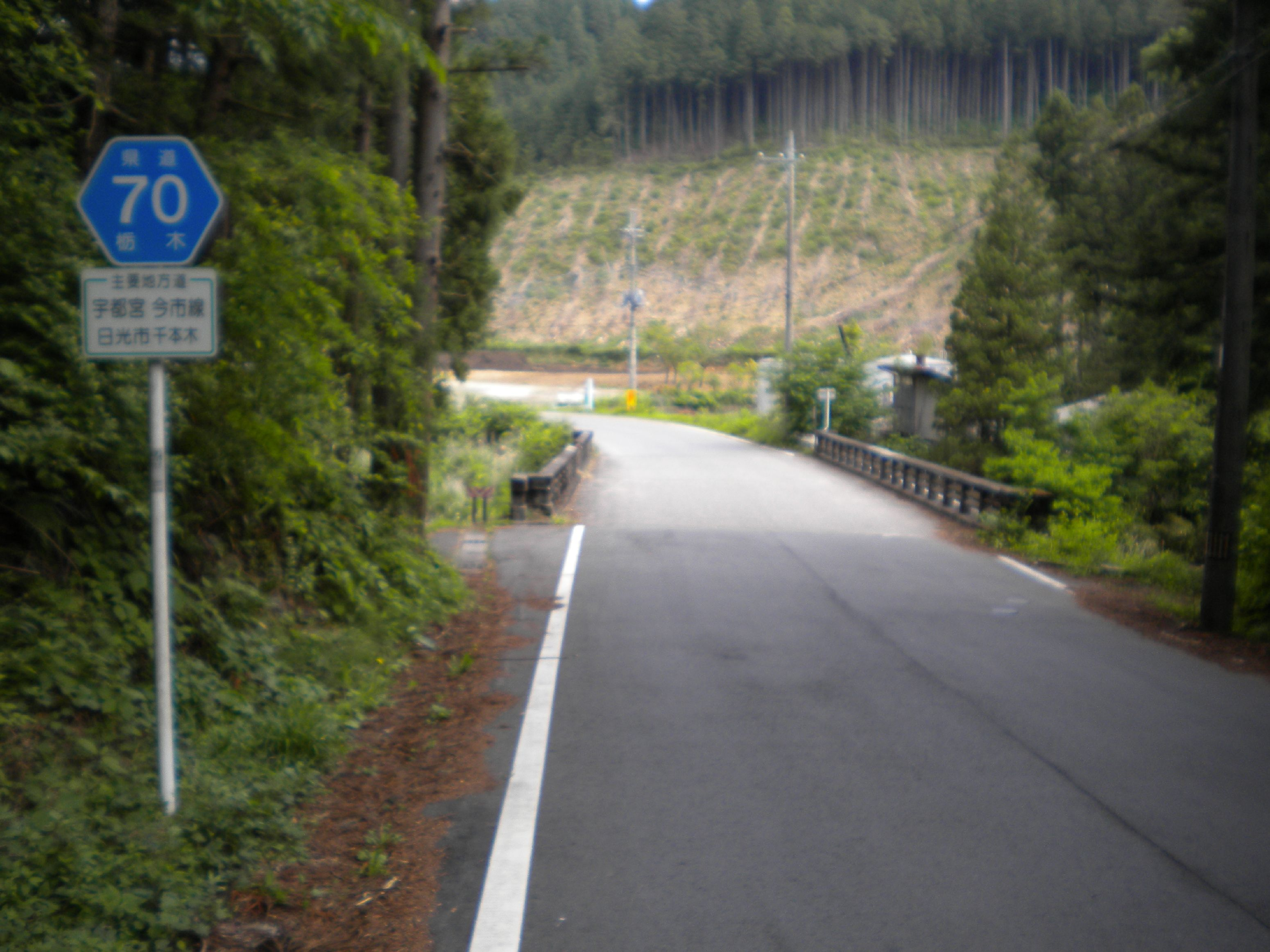 The Tochigi Prefectural Road Route 70 in Senbongi, Nikko City